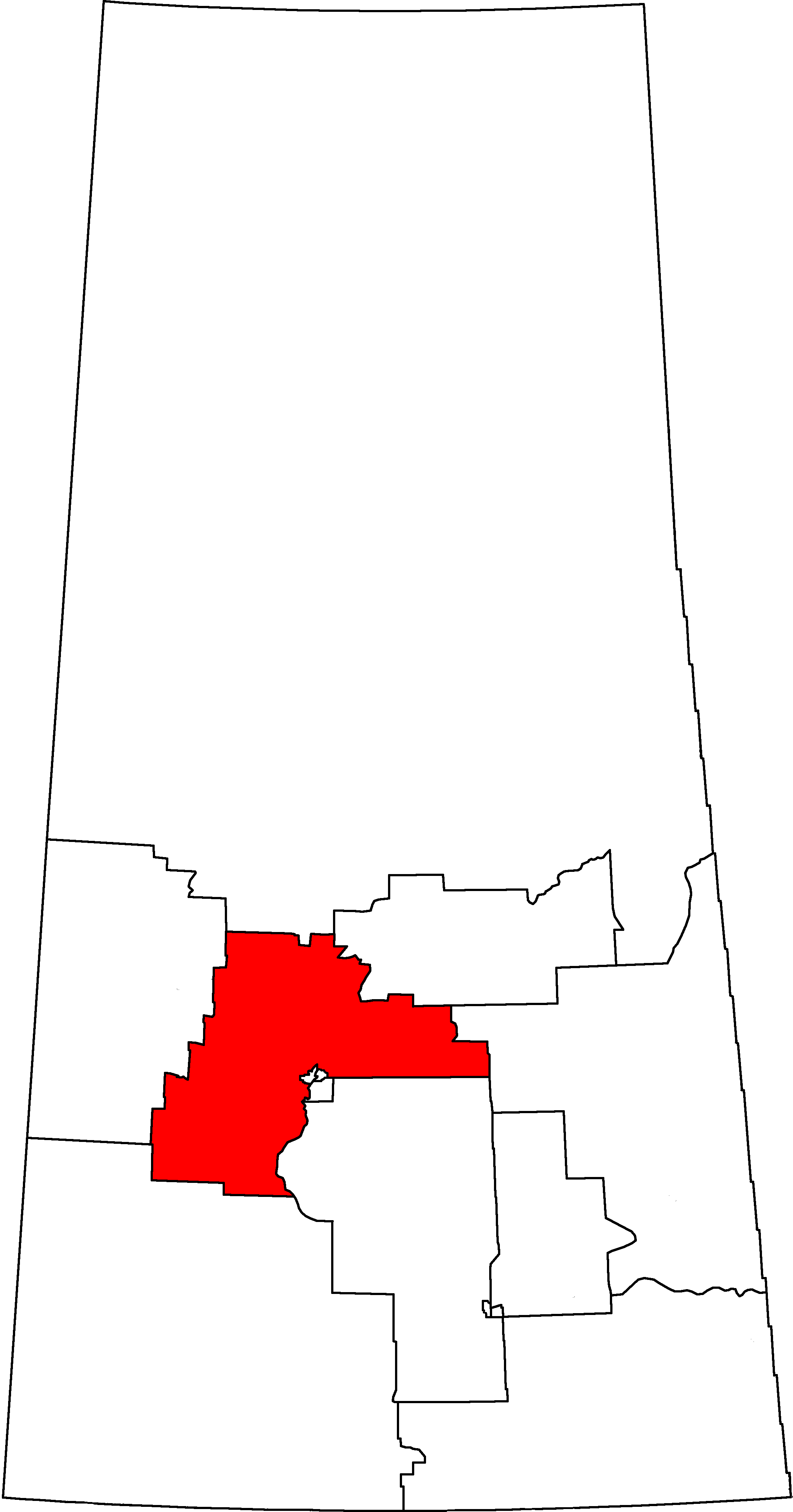 Federal Electoral District in Saskatchewan, Canada as of the 2013 Representation Order.